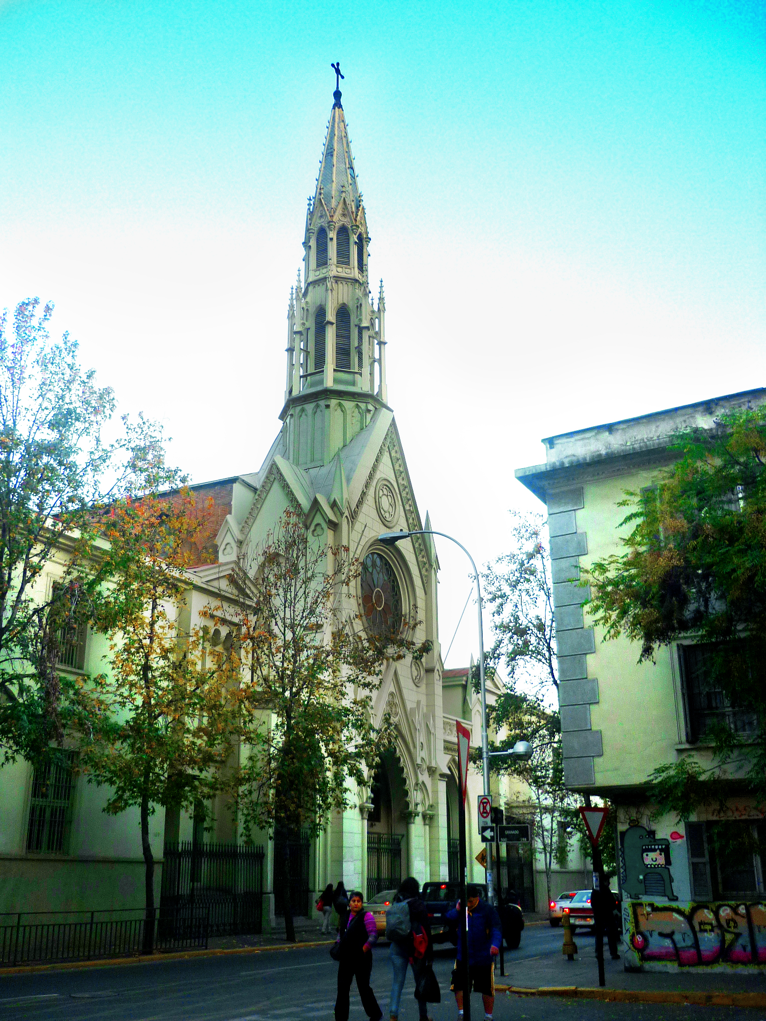 La historia de la construcción de esta iglesia comienza el 4 de mayo de 1878, cuando el Vicario Jorge Montes emitió un decreto religioso en el que da inicio al levantamiento del edificio